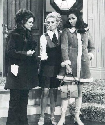 Photo scene from the television program The Mary Tyler Moore Show of Valerie Harper (Rhoda Morgenstern), Cloris Leachman (Phyllis Lindstrom), and Mary Tyler Moore in Mary Richards' apartment. *Note - this came from a press release dated 1977. The scene is from a 1970 episode.*